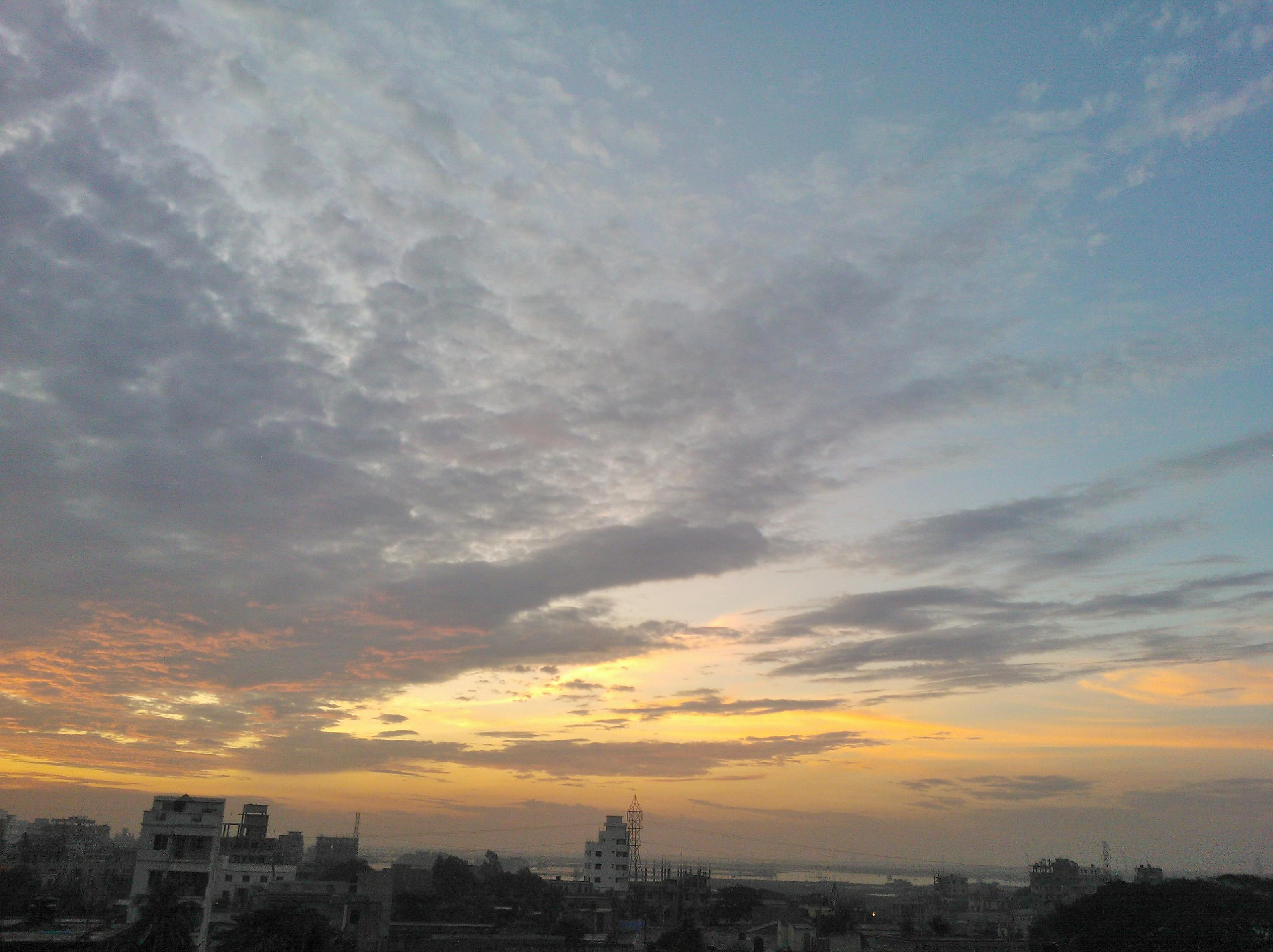 Sunrise in Dhaka.